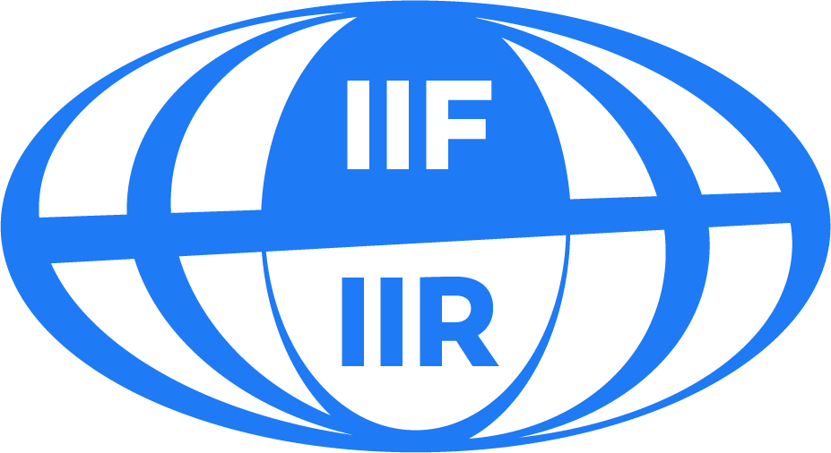 IIR logo